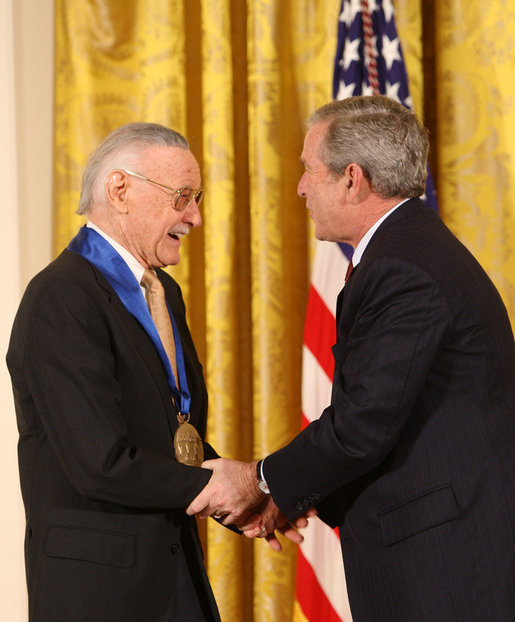 President George W. Bush congratulates legendary comic book creator Stan Lee of Los Angeles, as a recipient of the 2008 National Medal of Arts in ceremonies Monday, Nov. 17, 2008 at the White House. White House photo by Chris Greenberg